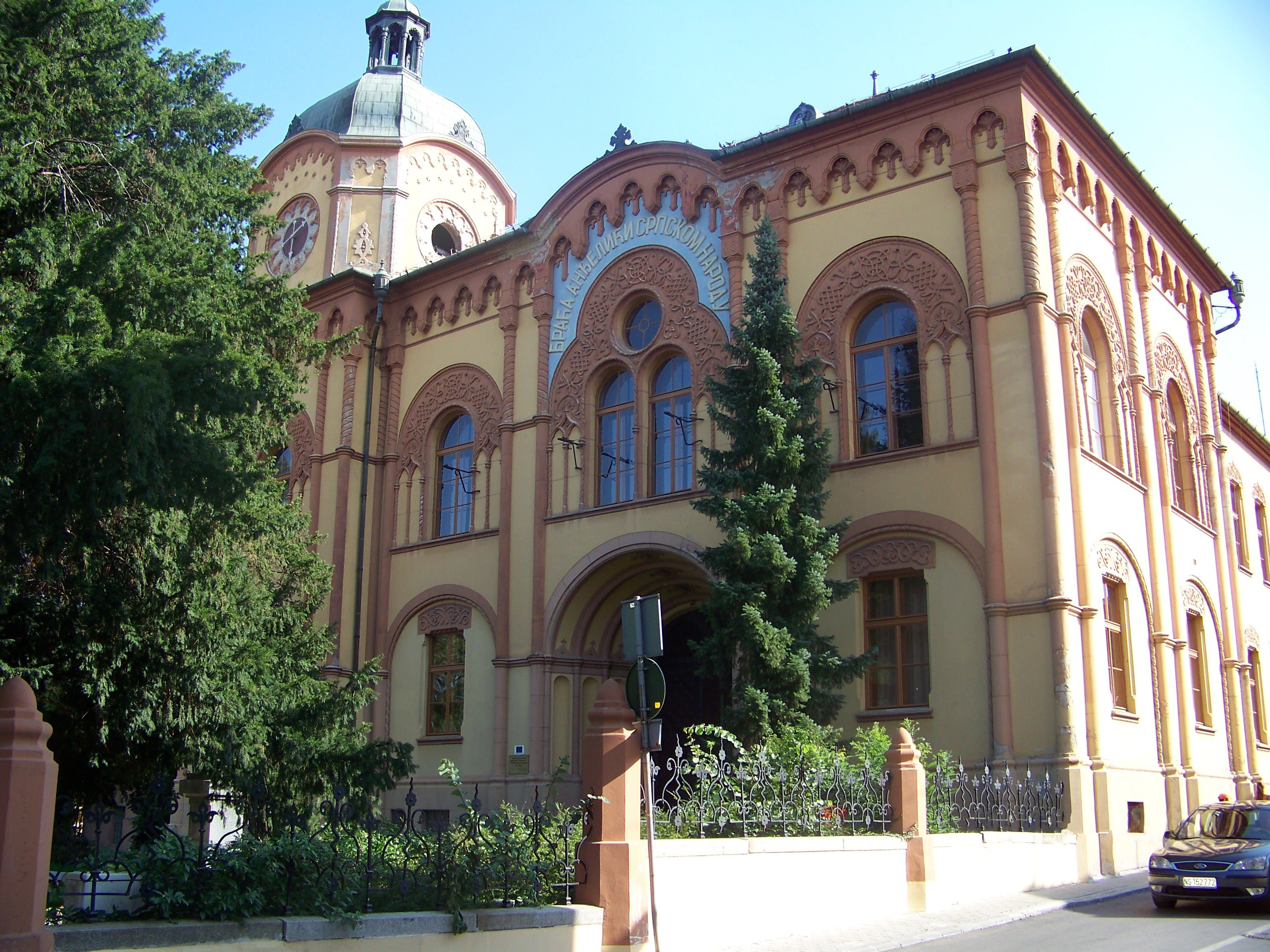 Sremski Karlovci, Gymnasium